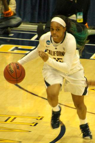 Brittany Boyd of the California Golden Bears